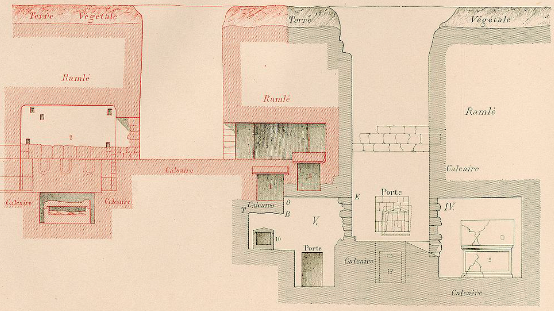 Osman Hamdi Bey's drawing of the Ayaa Necropolis, Sidon